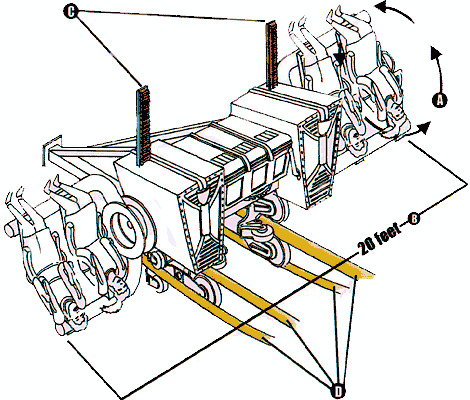 This diagram shows how X2 rotates: A) Rotation of Seats B) Seat on Axle C) Rack Gear